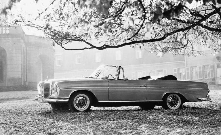 300 SE W112 Cabriolet